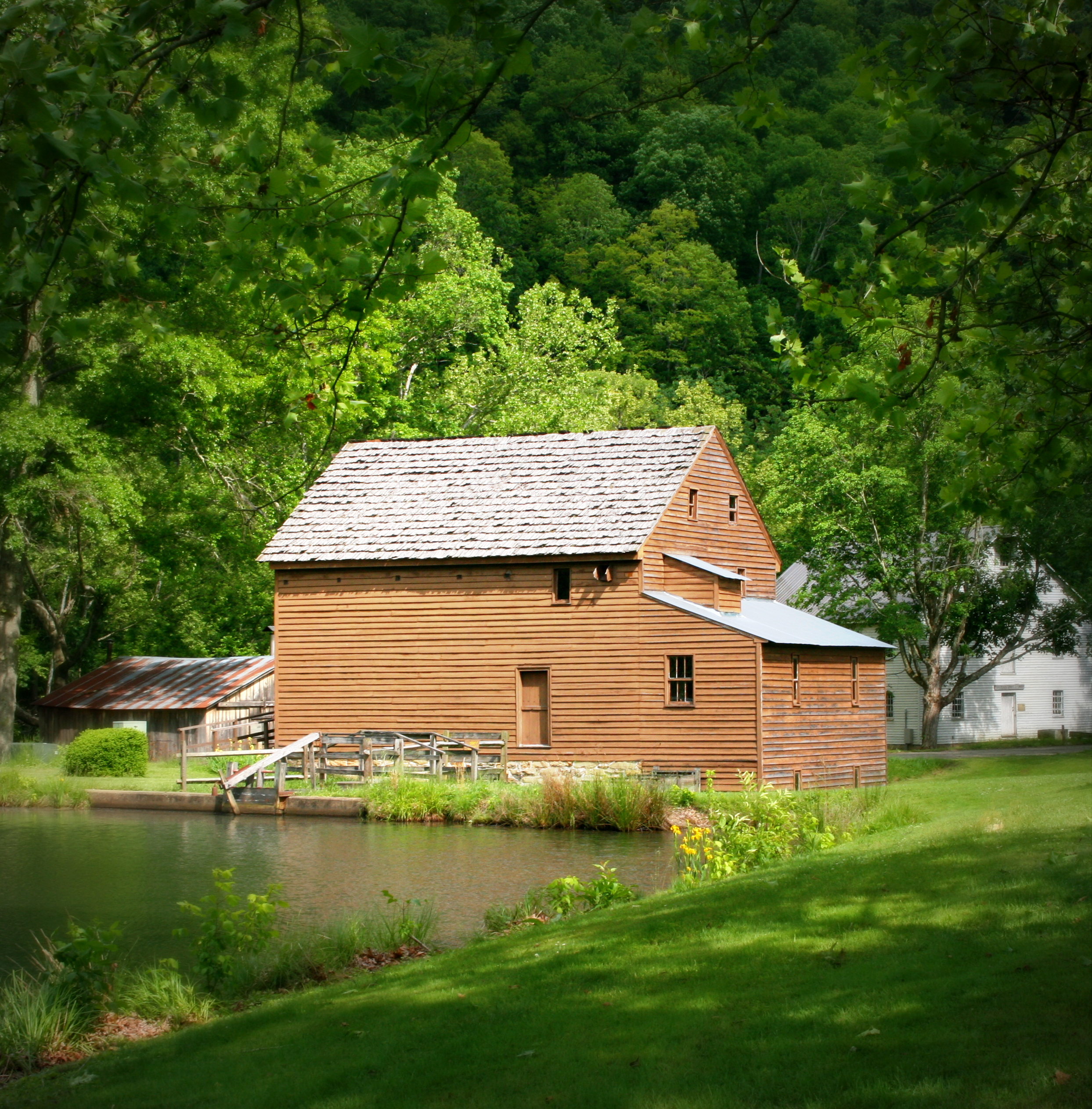 The historic and still operational Blaker's gristmill on the site of Jackson's Mill